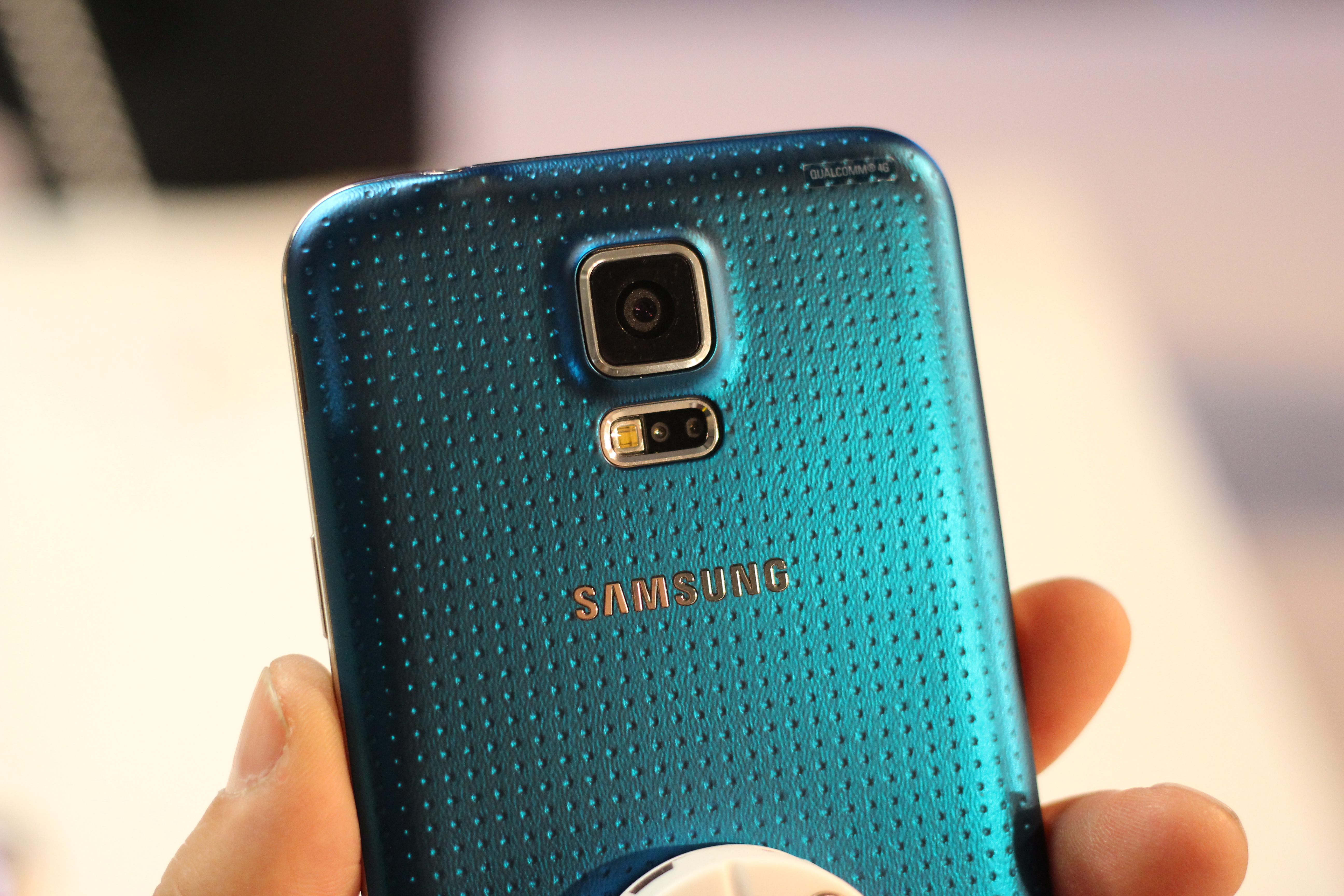 Rear of "Electric Blue" Samsung Galaxy S5 smartphone